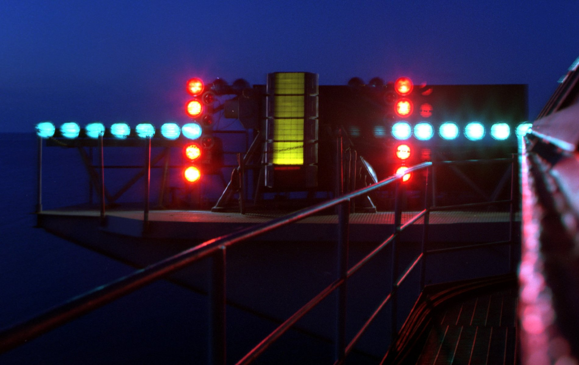 A view of the lighted deck edge assembly of the Fresnel lens optical landing system aboard the nuclear-powered aircraft carrier USS DWIGHT D. EISENHOWER (CVN-69).